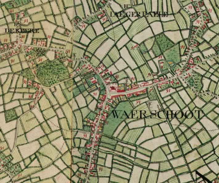 Waarschoot, Belgium_;_ detail from Ferraris_Map